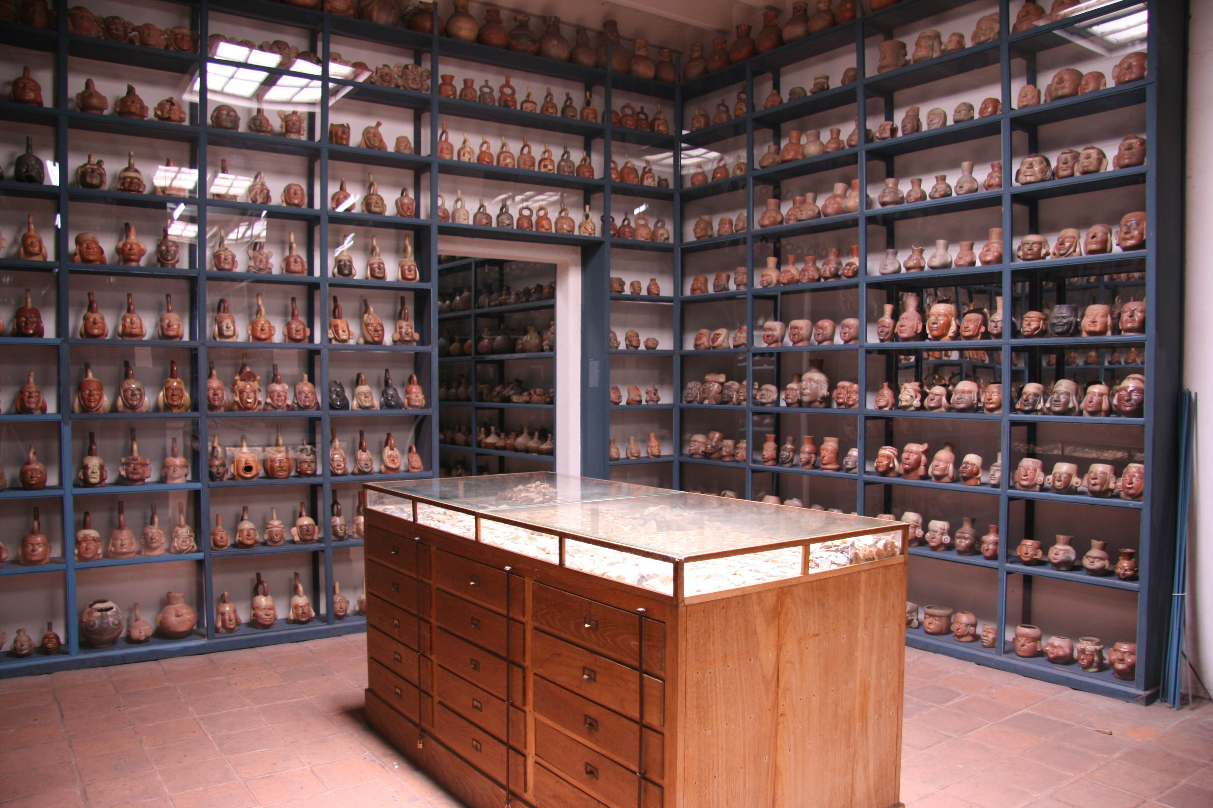 This is an image of the Storage Gallery of the Larco Museum taken by me, Lyndsay Ruell in November of 2006. It is to be used on the Larco Museum page.